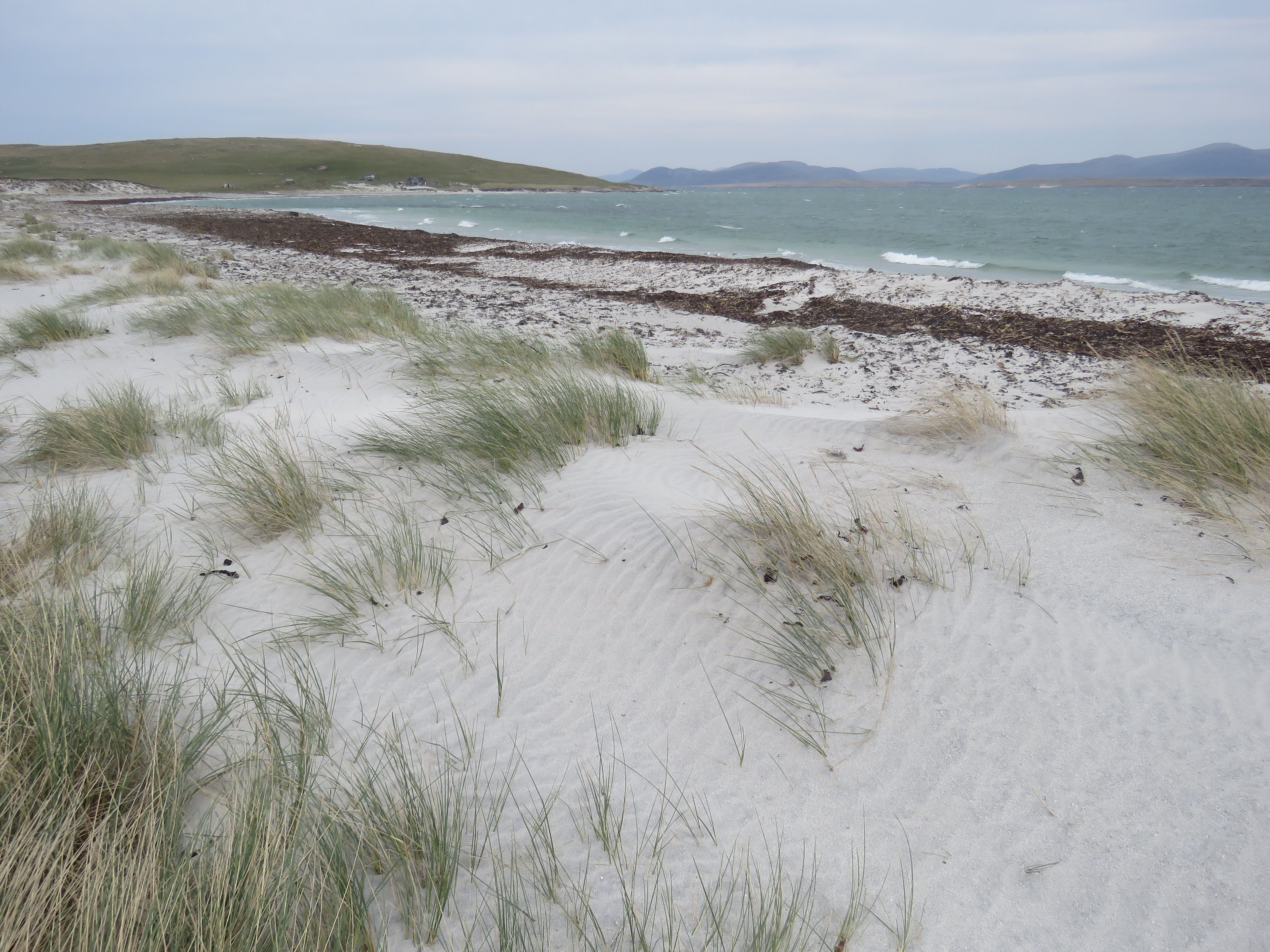 Berneray; beach on the east coast